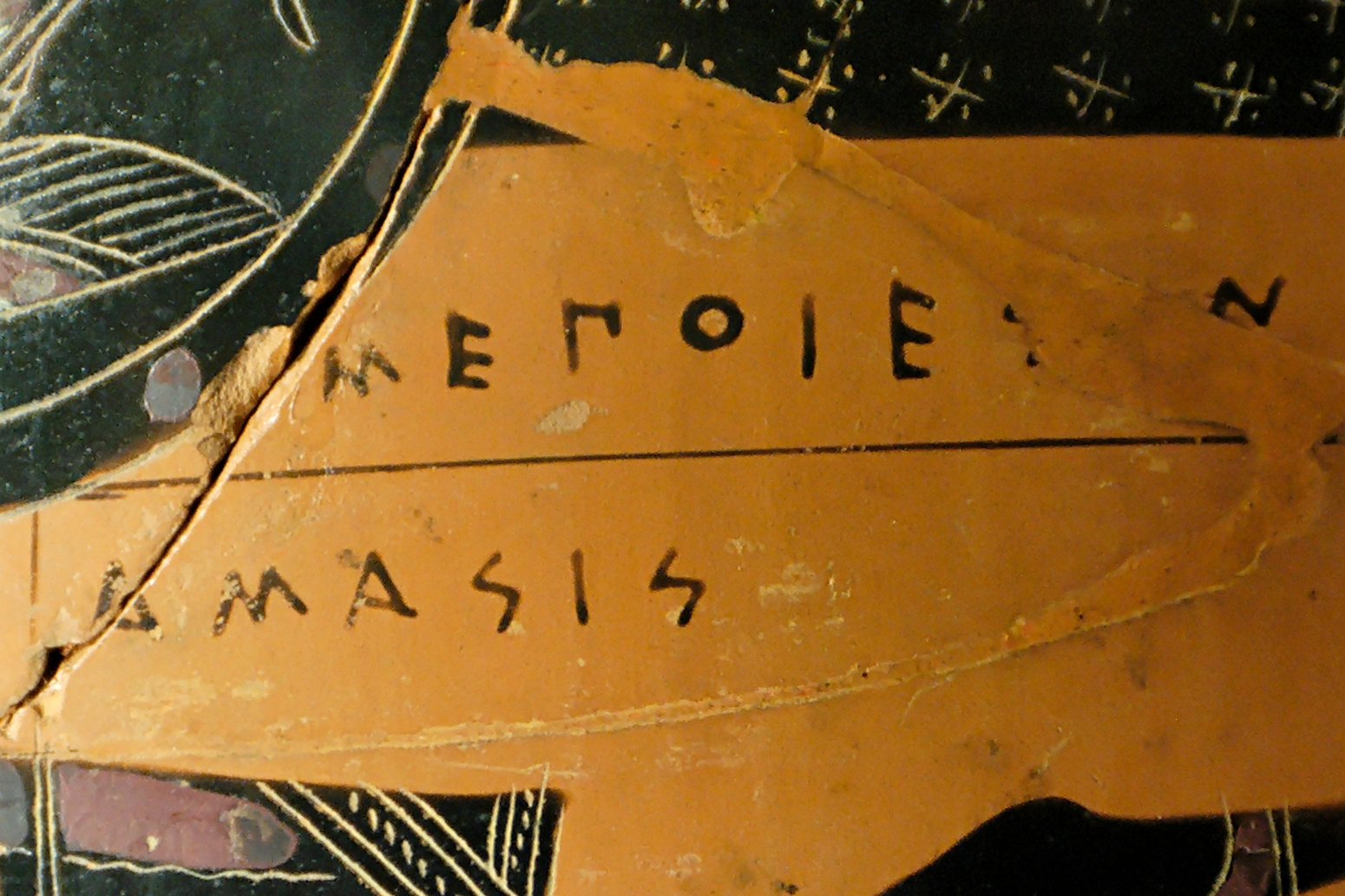 Amasis' signature (ΑΜΑΣΙΣ ΜΕΠΟΙΕΣΕΝ), rotated 90° anticlockwise, detail from a scene representing Herakles entering Olympus. Attic black-figure olpe, 550–530 BC.